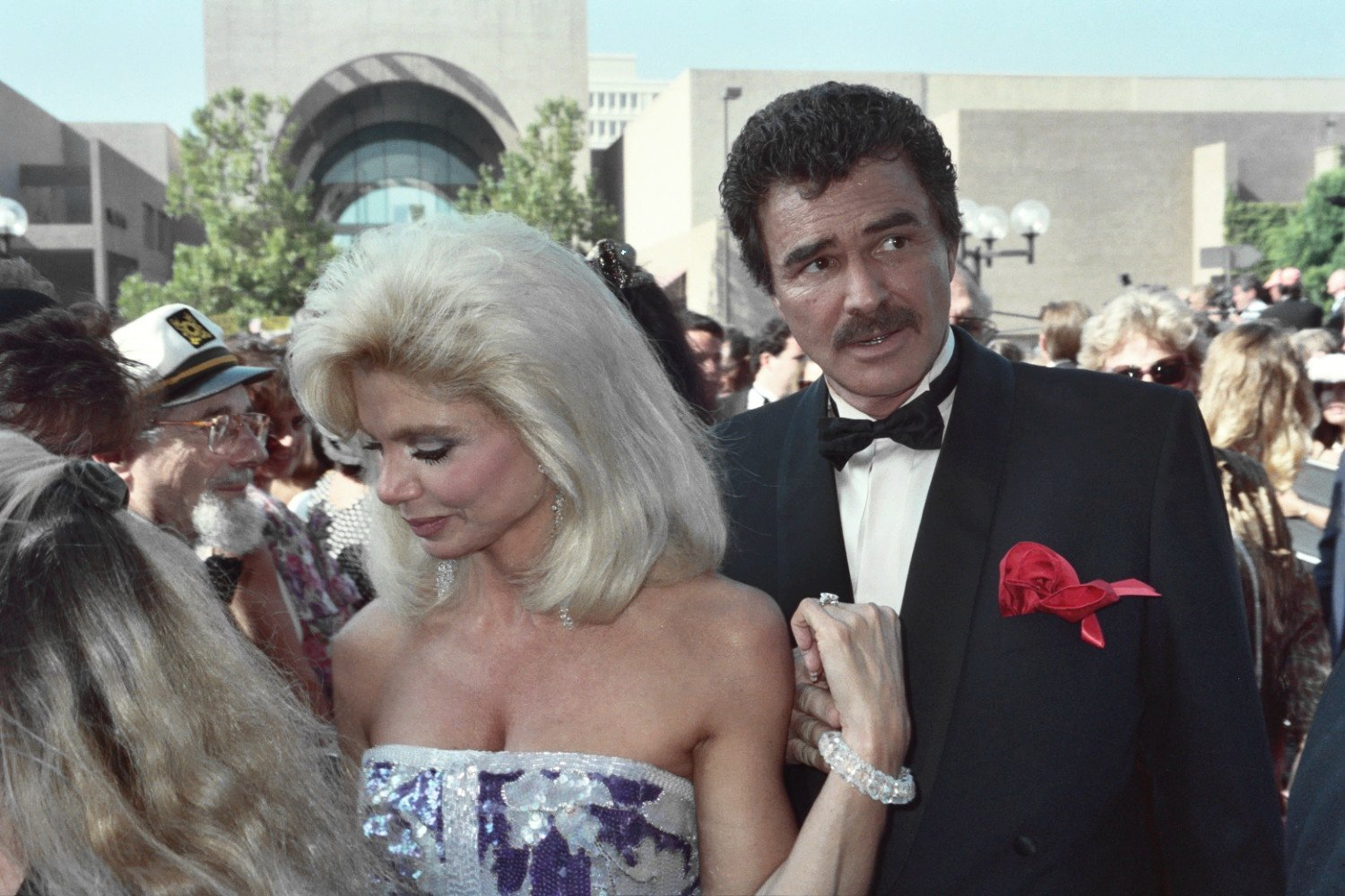 Arriving at the 1991 Emmy Awards. NOTE: Permission granted to copy, publish, broadcast or post any of my photos, but please credit "photo by Alan Light" if you can. Thanks. Scanned from the original 35MM film negative.